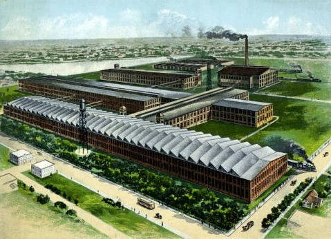 Proimity White Oak textile plant